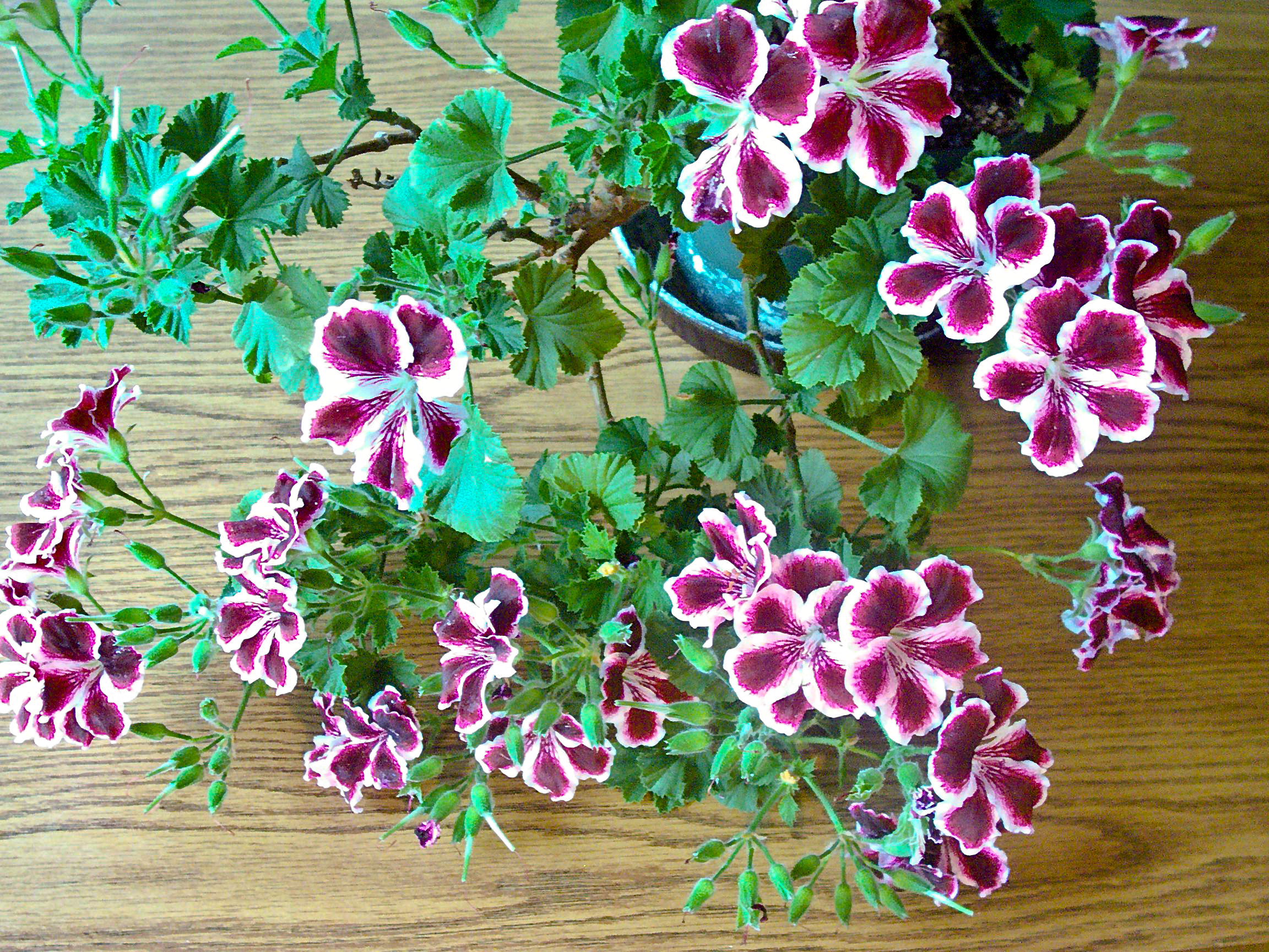 Pelargonium (Angel Group) know as Angeleyes Randy